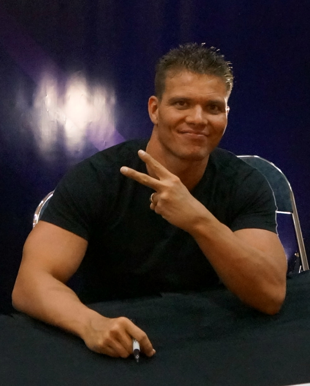 Tyson Kidd (real name TJ Wilson) at WrestleMania Axxess in April 2014. Cropped from original.